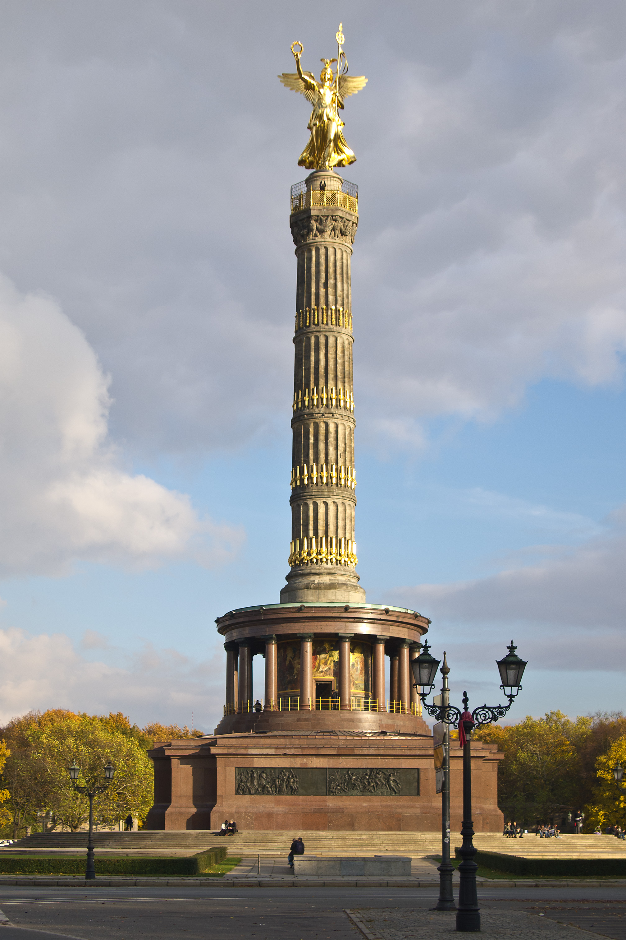 Berlin Victory Column on the place Großer Stern in Berlin-Tiergarten, Germany.